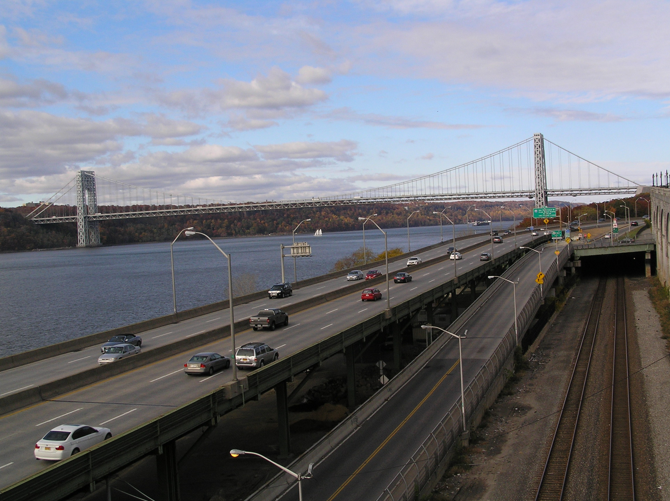 I took this photograph of the Henry Hudson Parkway heading north towards the George Washington Bridge. The photo was taken on a cool November day in 2013.